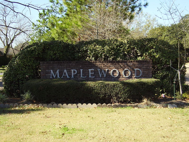 Sign for Maplewood in Houston - Originally at